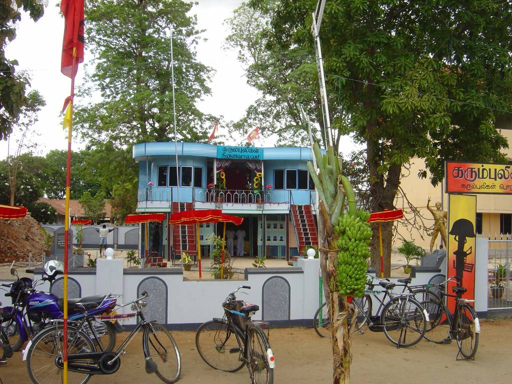 The LTTE commemorating its "Black Tigers Day", 5 July 2005, Nelliady, Jaffna, Sri Lanka. Taken by Ulf Larsen, with a Sony Cybershot DSC-P10, 5 megapixel digital camera